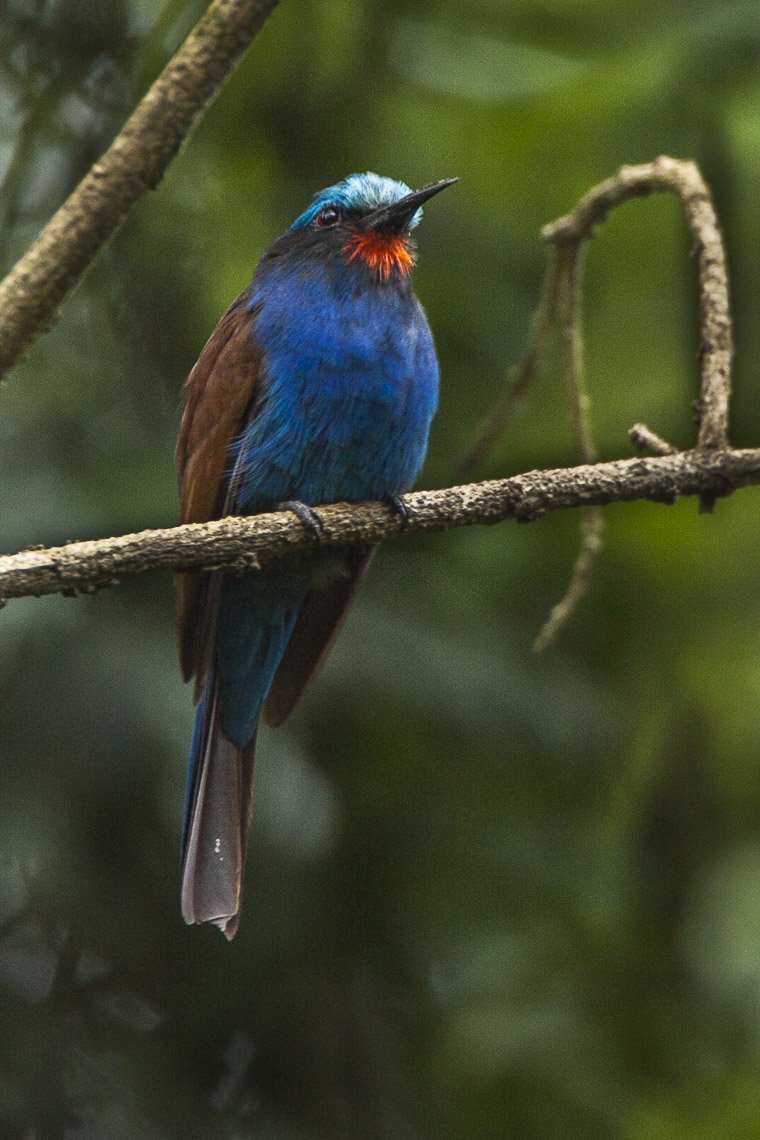 Blue-headed Bee-eater Merops muelleri, Kakamega, Kenya